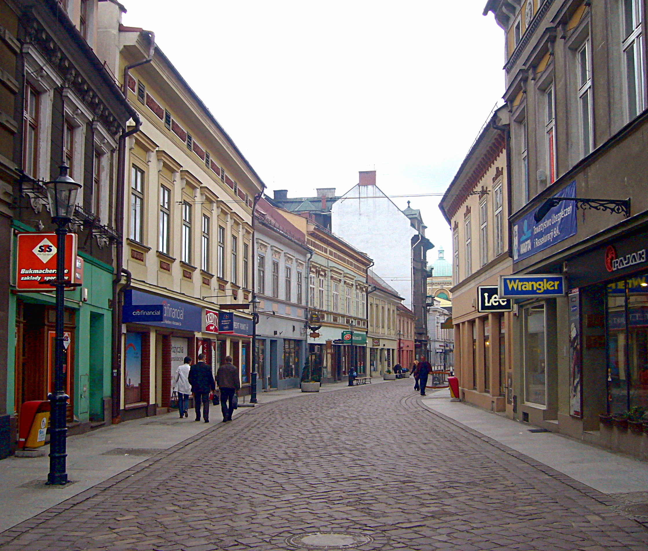 11 Listopada Street in Bielsko-Biała, Poland. View from Wojska Polskiego Square to west.